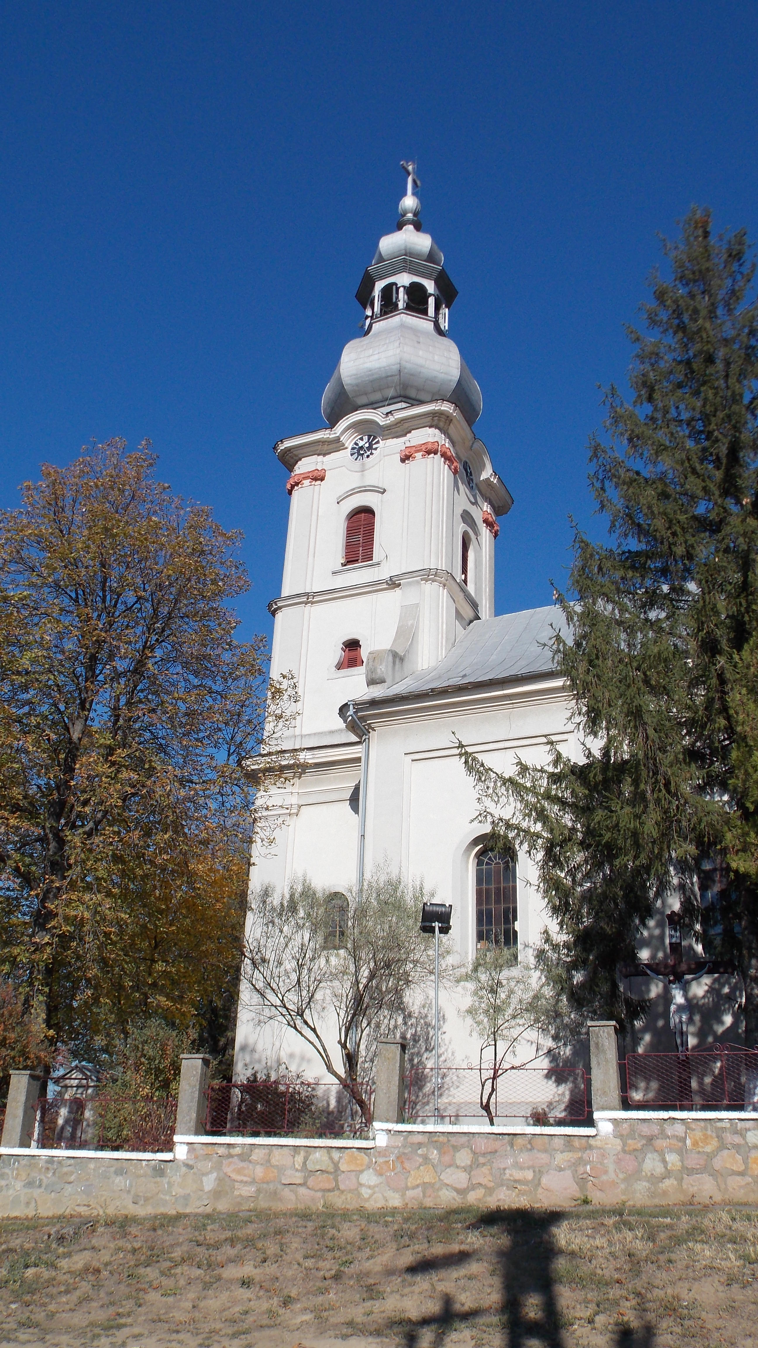 "St. Mary the Immaculate" Roman-Catholic Church, Sacueni, Bihor county, RomaniaRomână: Biserica Romano-Catolică "Sf. Maria Imaculata", Săcueni, jud. Bihor